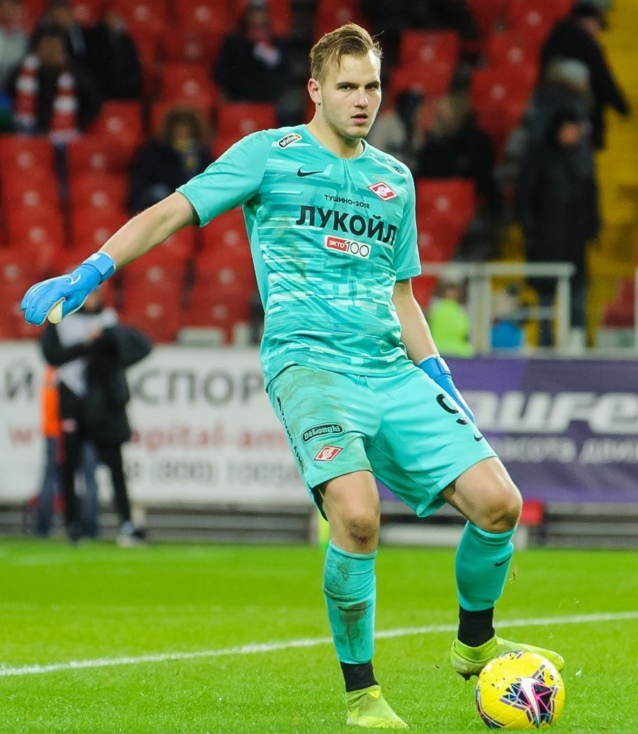 Aleksandr Maksimenko with FC Spartak Moscow in a game against FC Rostov